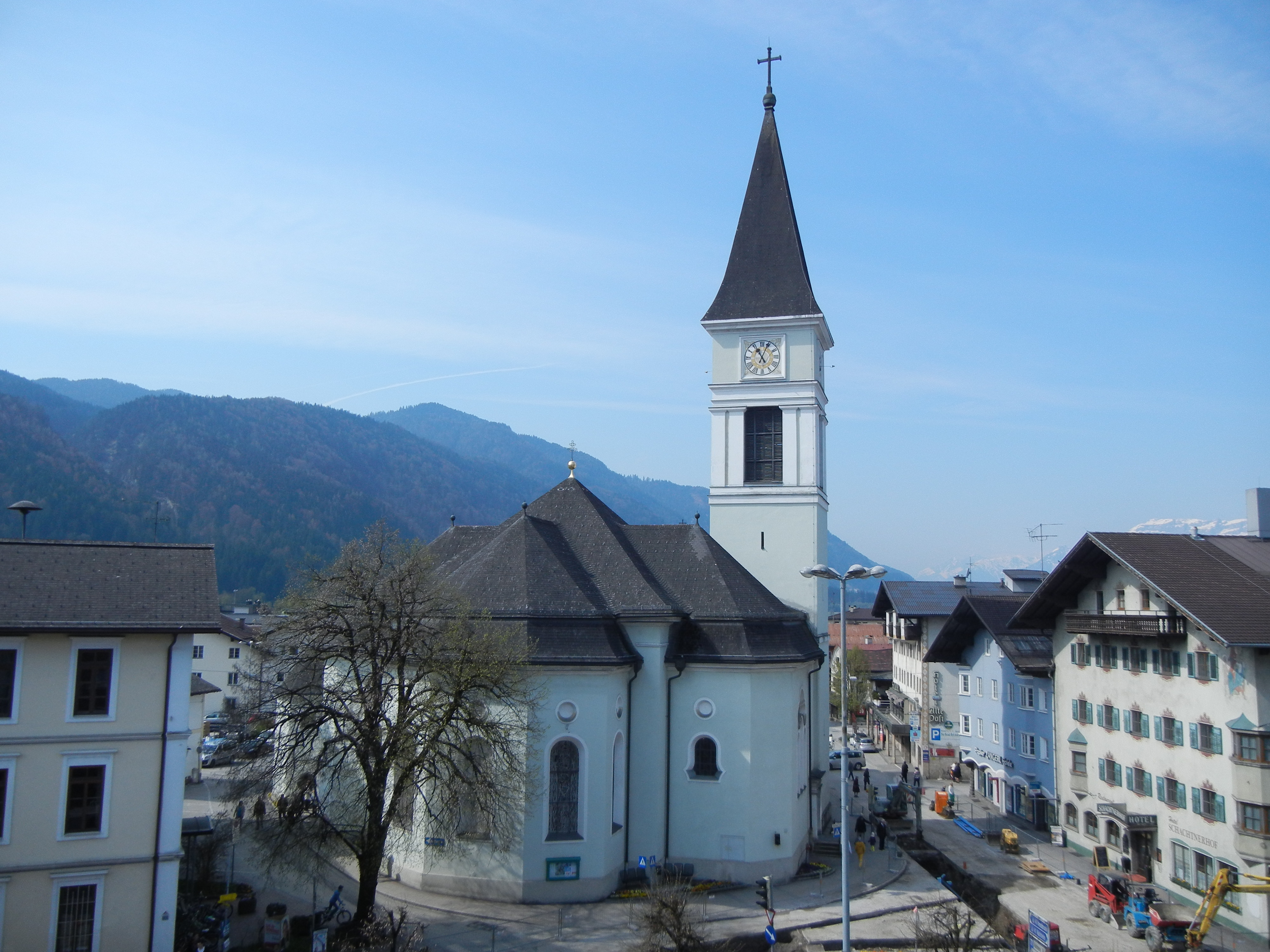 The Saint Lawrence Church of Wörgl (Tyrol, Austria).